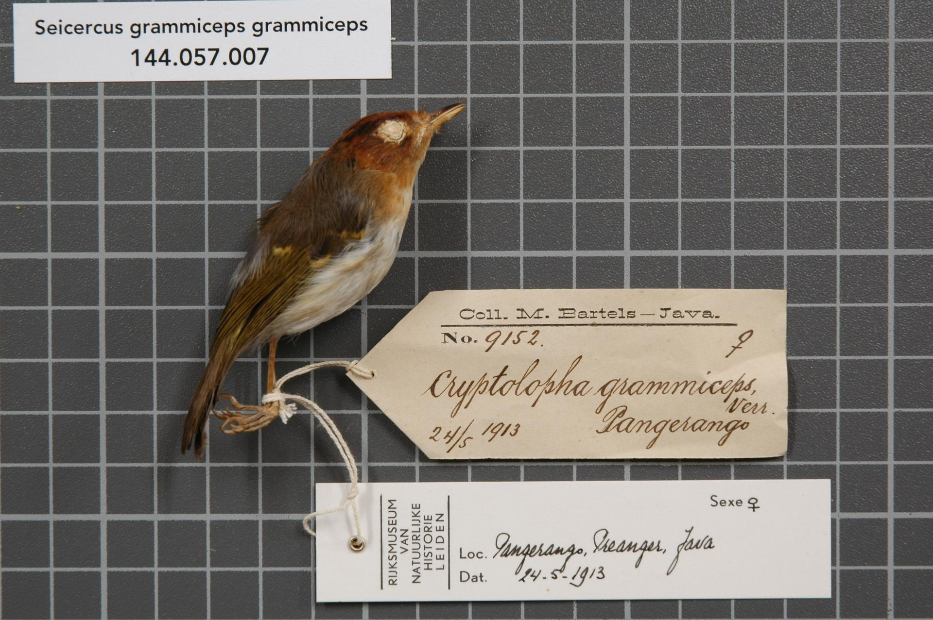 Seicercus grammiceps grammiceps (Strickland, 1849)